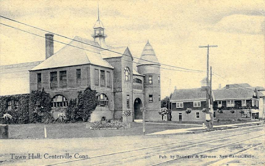 First Hamden (Connecticut) Town Hall, built in 1888 at the corner of the present Whitney and Dixwell avenues. Replaced by second Town Hall in 1924. Labeled "Town Hall, Centerville, Conn." Centerville is the name of the neighborhood in which it is located.